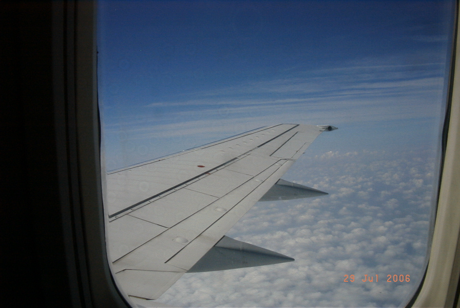 View from aircraft.